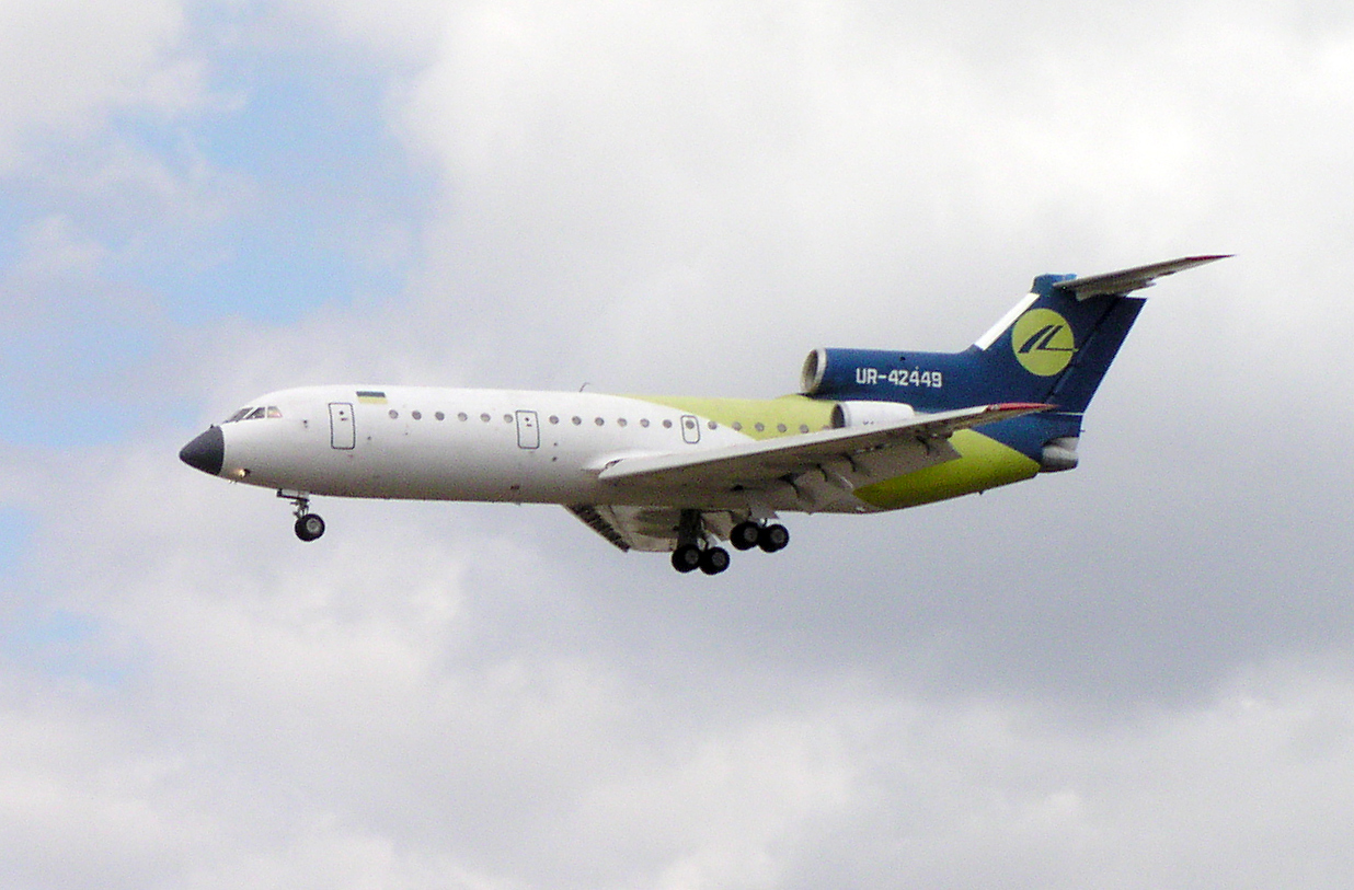 Description: Yakovlev Yak-42D Dnieproavia UR-42449 approaching Frankfurt/Main, July 2005. Photographer: Arcturus Licence: GFDL + cc-by-sa-2.0-de